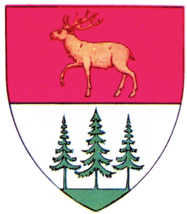 Interwar coat of arms of Storojineț County, Kingdom of Romania.